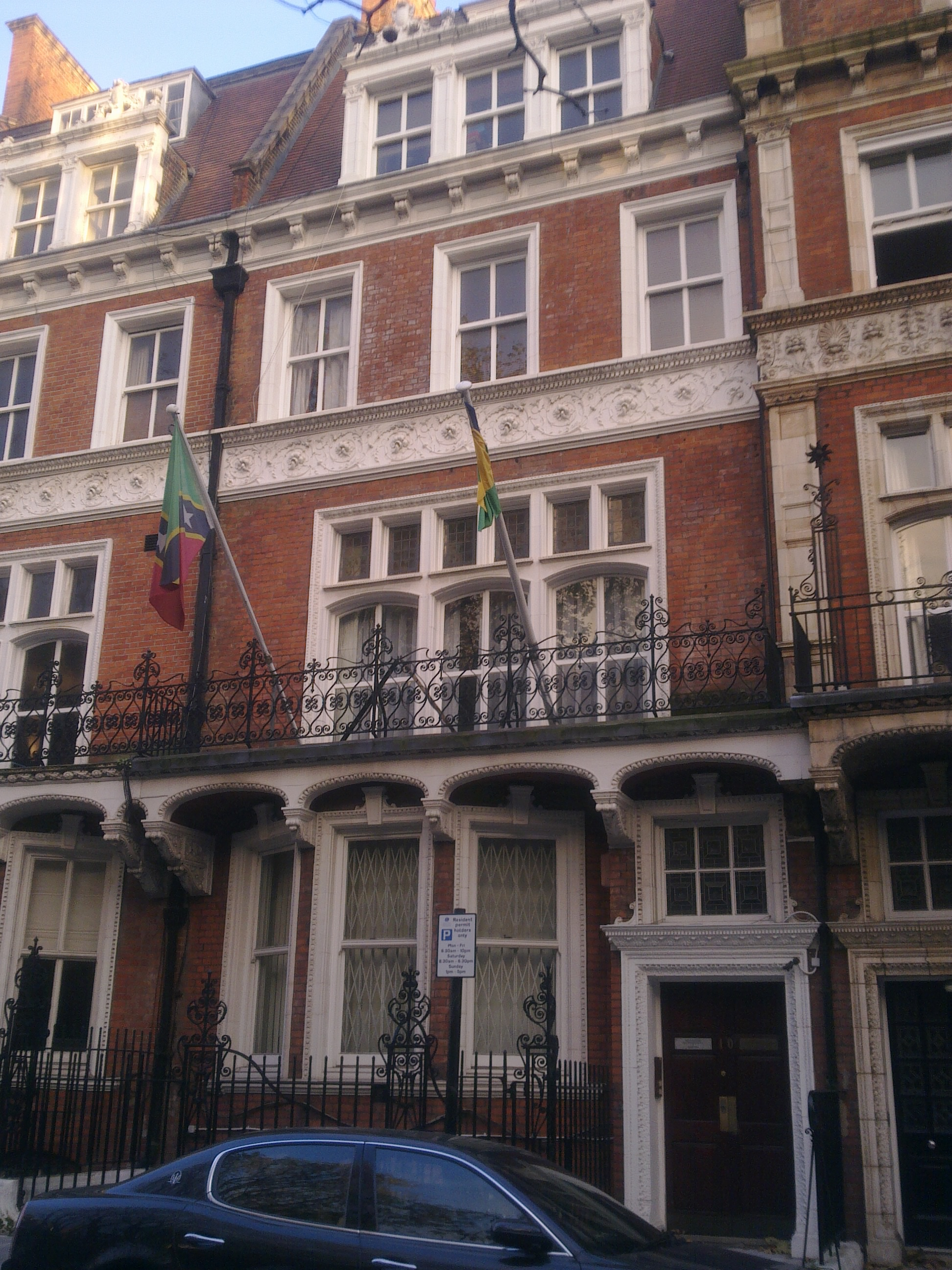 High Commission of Saint Kitts and Nevis, London & High Commission of Saint Vincent and the Grenadines, London